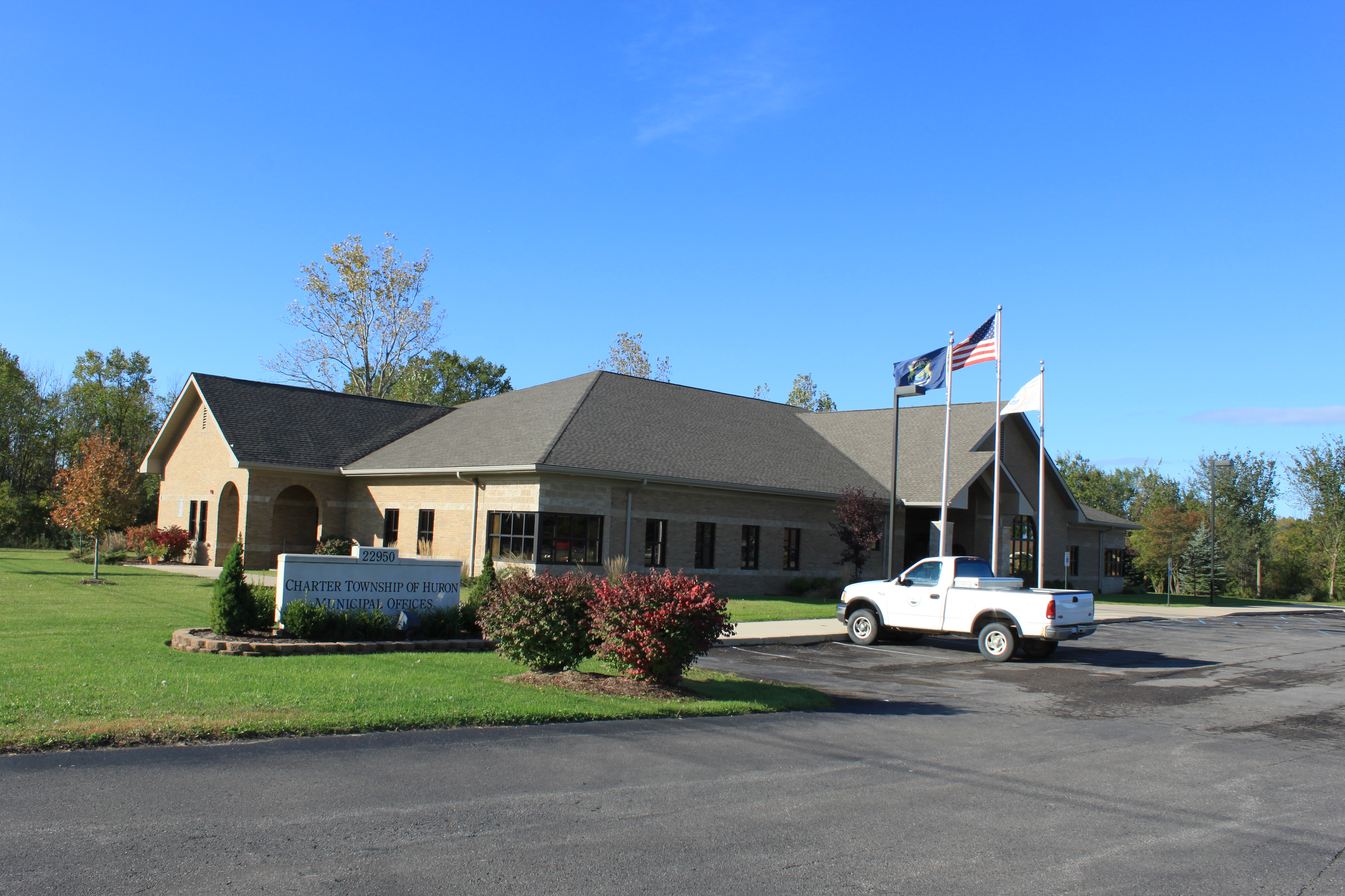 Huron Charter Township, Michigan, Municipal Offices Building, 22950 Huron River Drive